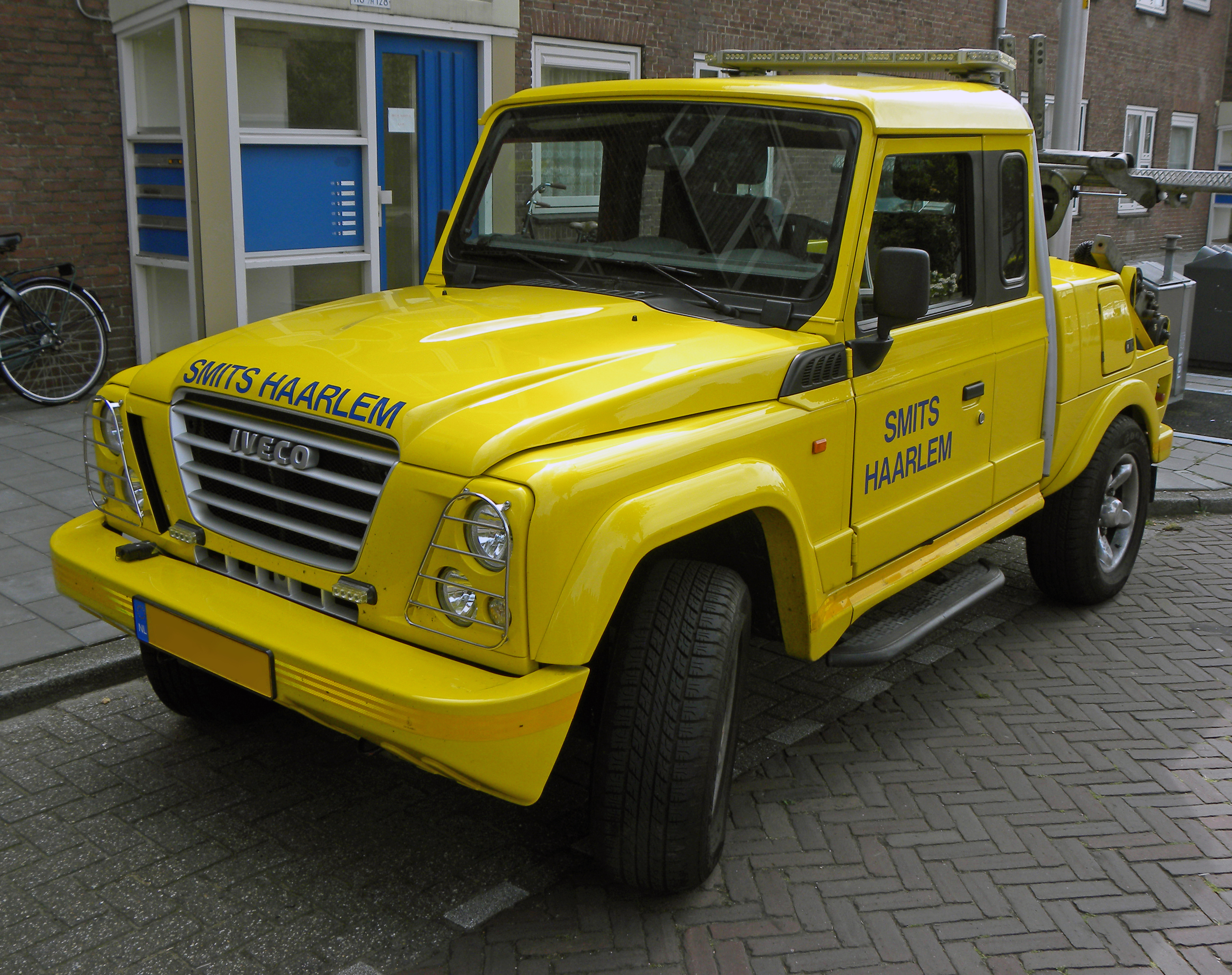 2010 Iveco Massif tow truck, Smits Haarlem. 2998cc diesel engine with 130PS (170kW).